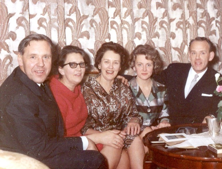 Birgit Ridderstedt with all 4 siblings on her 50th birthdayPlace: Granbacksvägen 5, Danderyd, Sweden